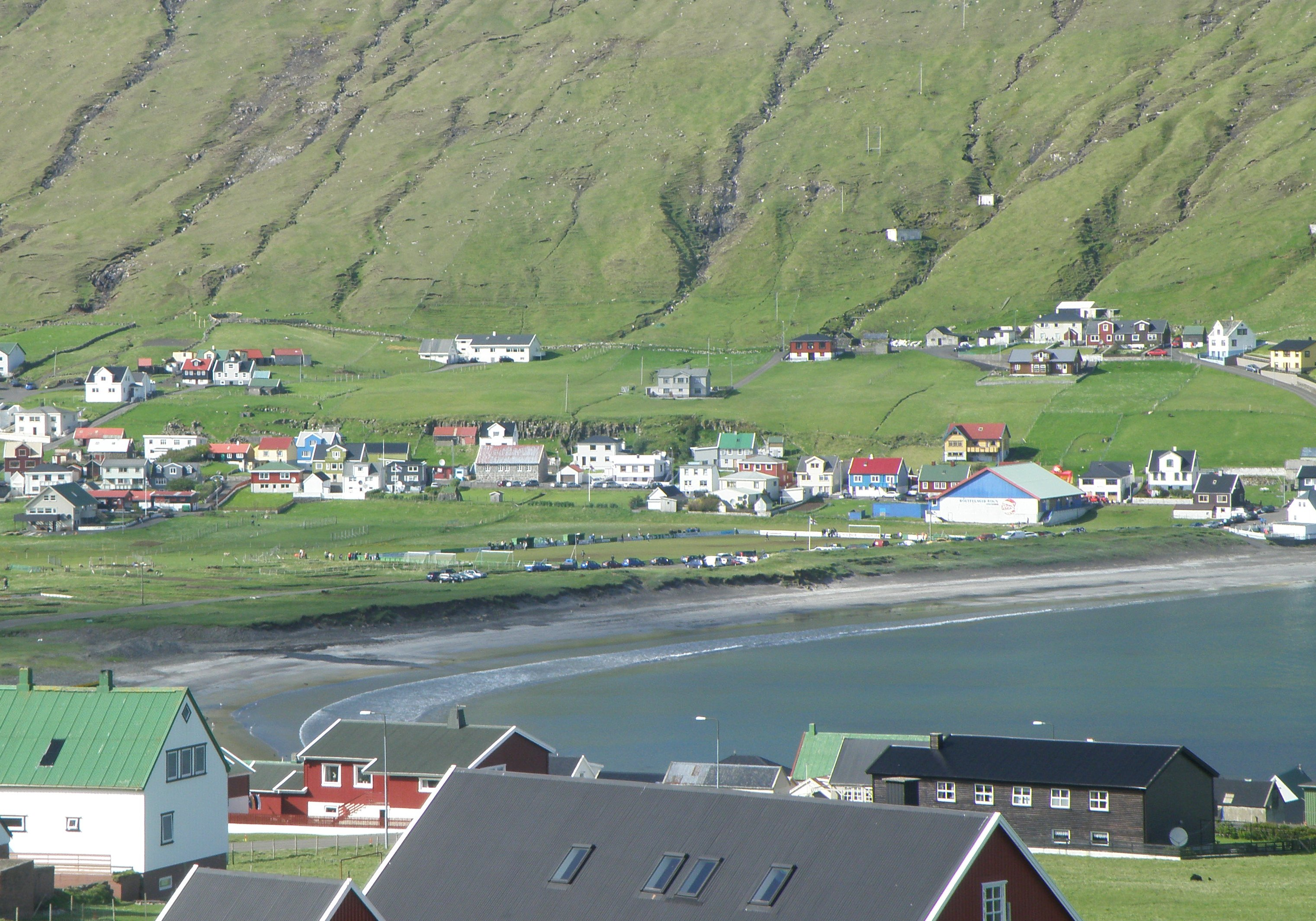 View to Hvalba, Faroe Islands, the sandy beach, the football field Á Skørinum and the sportshall Roynhøllin. Á Skørinum is the football field of Royn Hvalba, but in 2011 TB Tvøroyri also plays their home matches Á Skørinum, while they make a new football field in Trongisvágur. Føroyskt: Hvalba. Á myndini sæst m.a. sandstondin, fótbóltsvøllurin Á Skørinum og Roynhøllin.